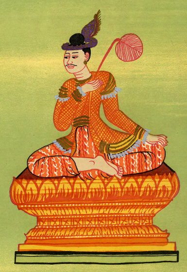 Thandawgan nat (spirit), th in the official pantheon of Burmese nats